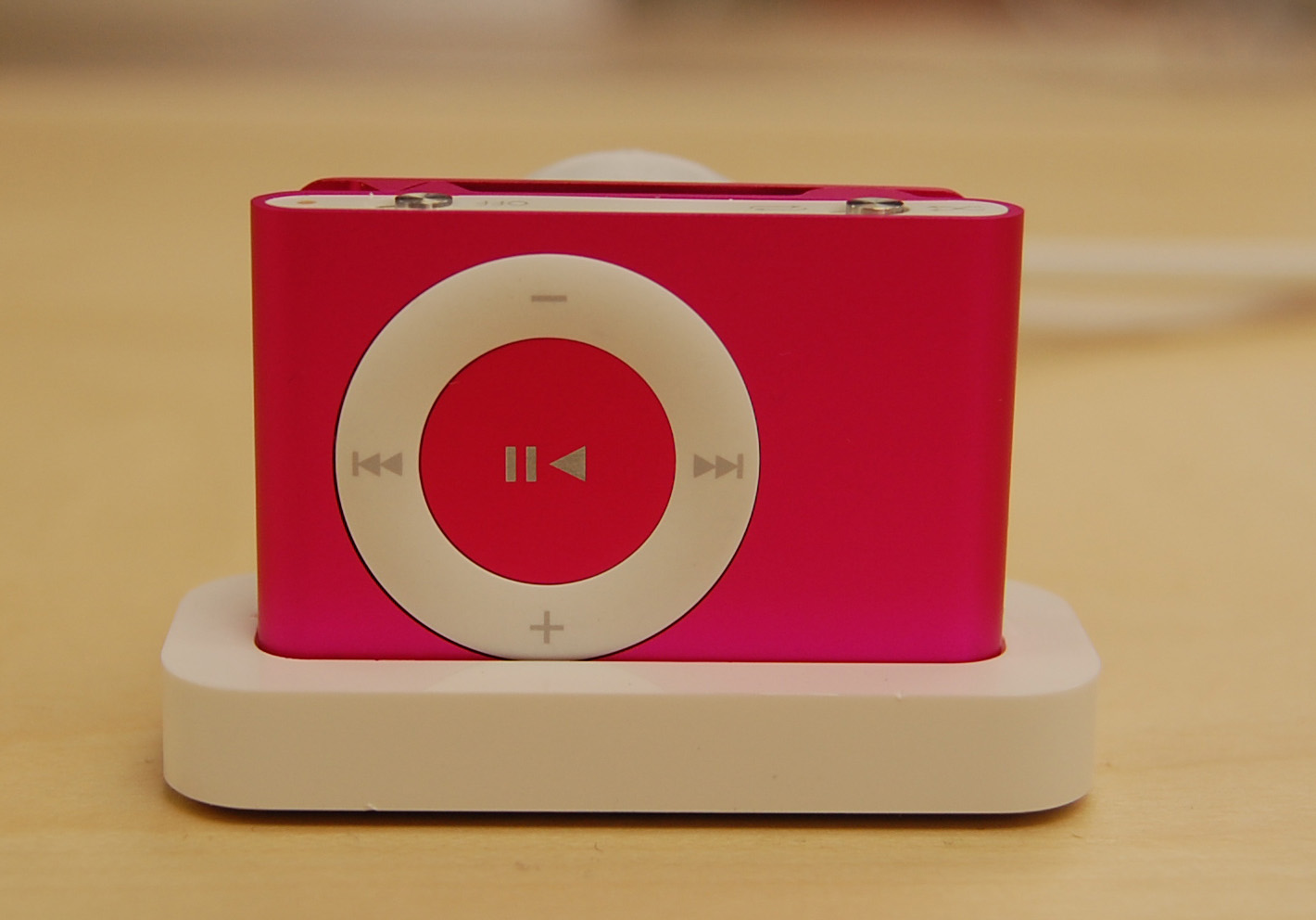 iPod Shuffle 2G on his dock